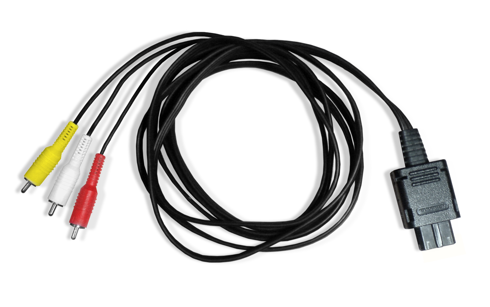 Composite video & stereo audio AV cable for Nintendo GameCube, Nintendo64 & SNES